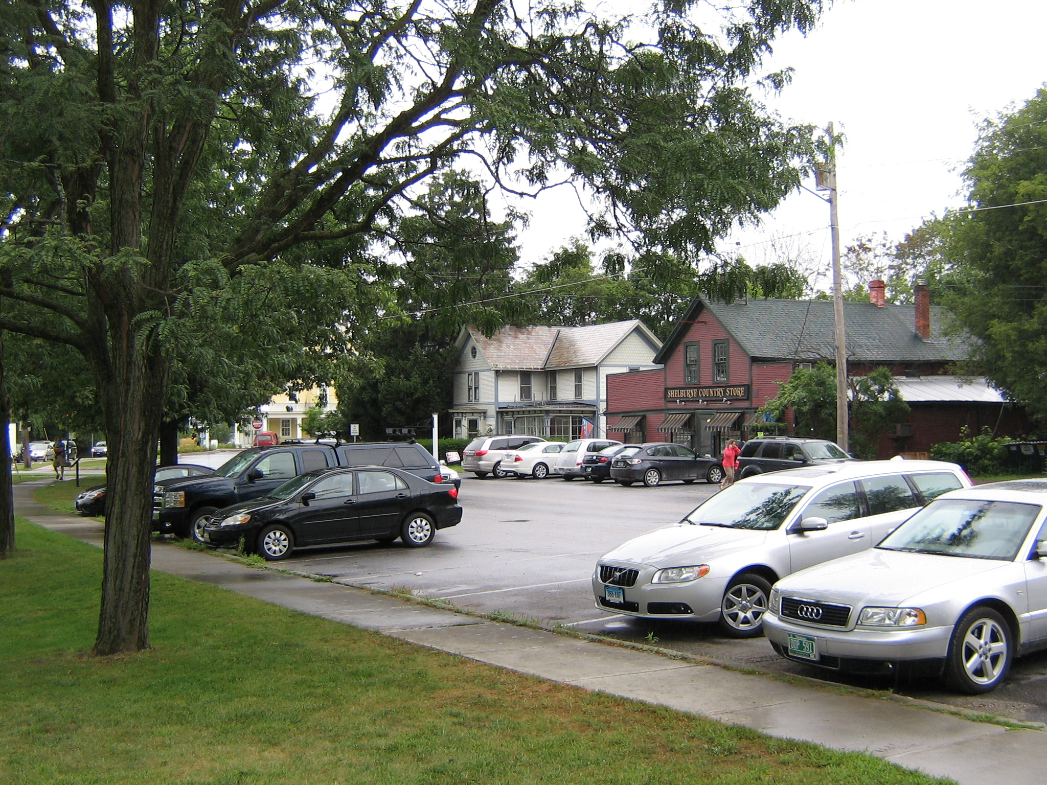 Village Center of Shelburne VT